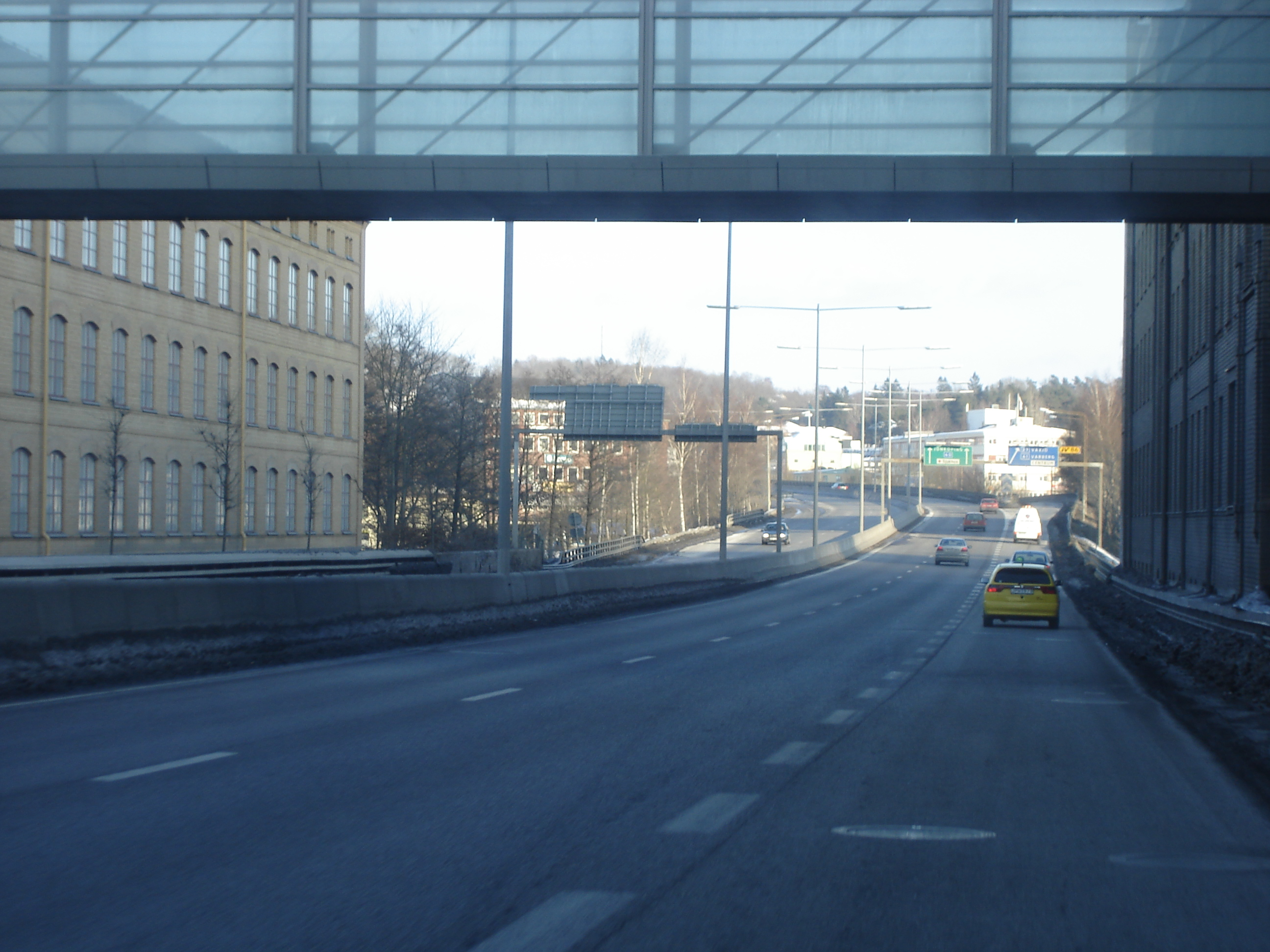 National Road 40 (Riksväg 40) in Borås, Sweden. Photo: Sebbe (User:Sebbe) 2006-03-11